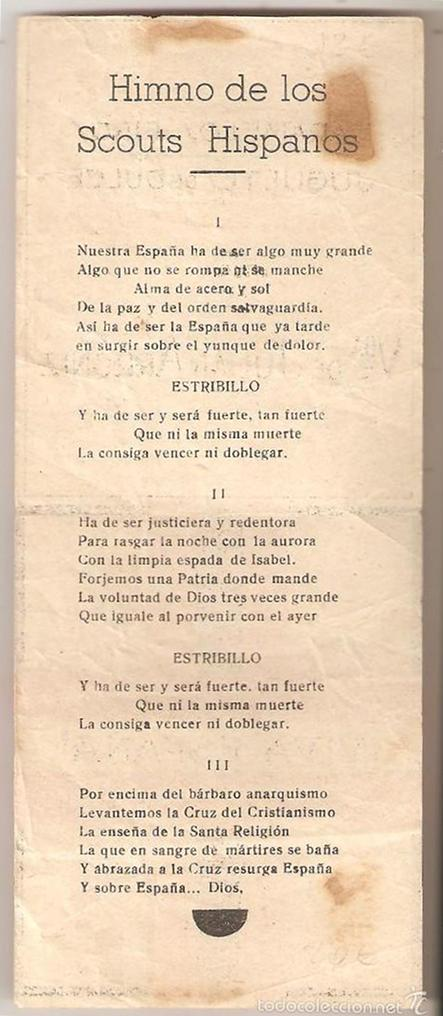 Scouts Hispanos anthem leaflet (1934)